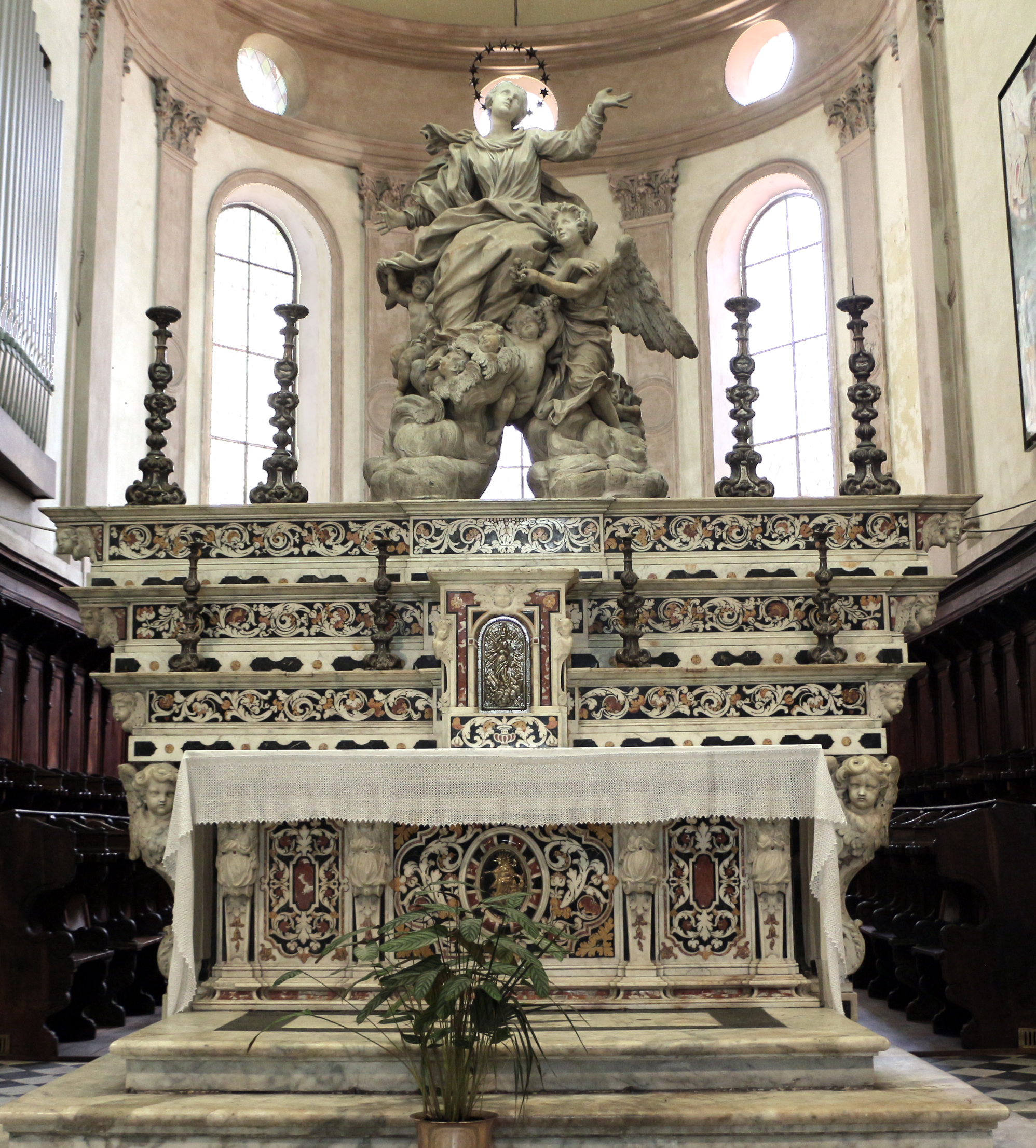 Santa Maria di Castello (Genoa)